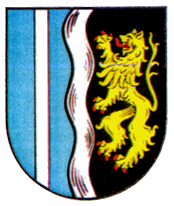 Coat of arms of Nanzdietschweiler